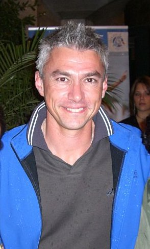 Gotheborg 2006: Jonathan Edwards